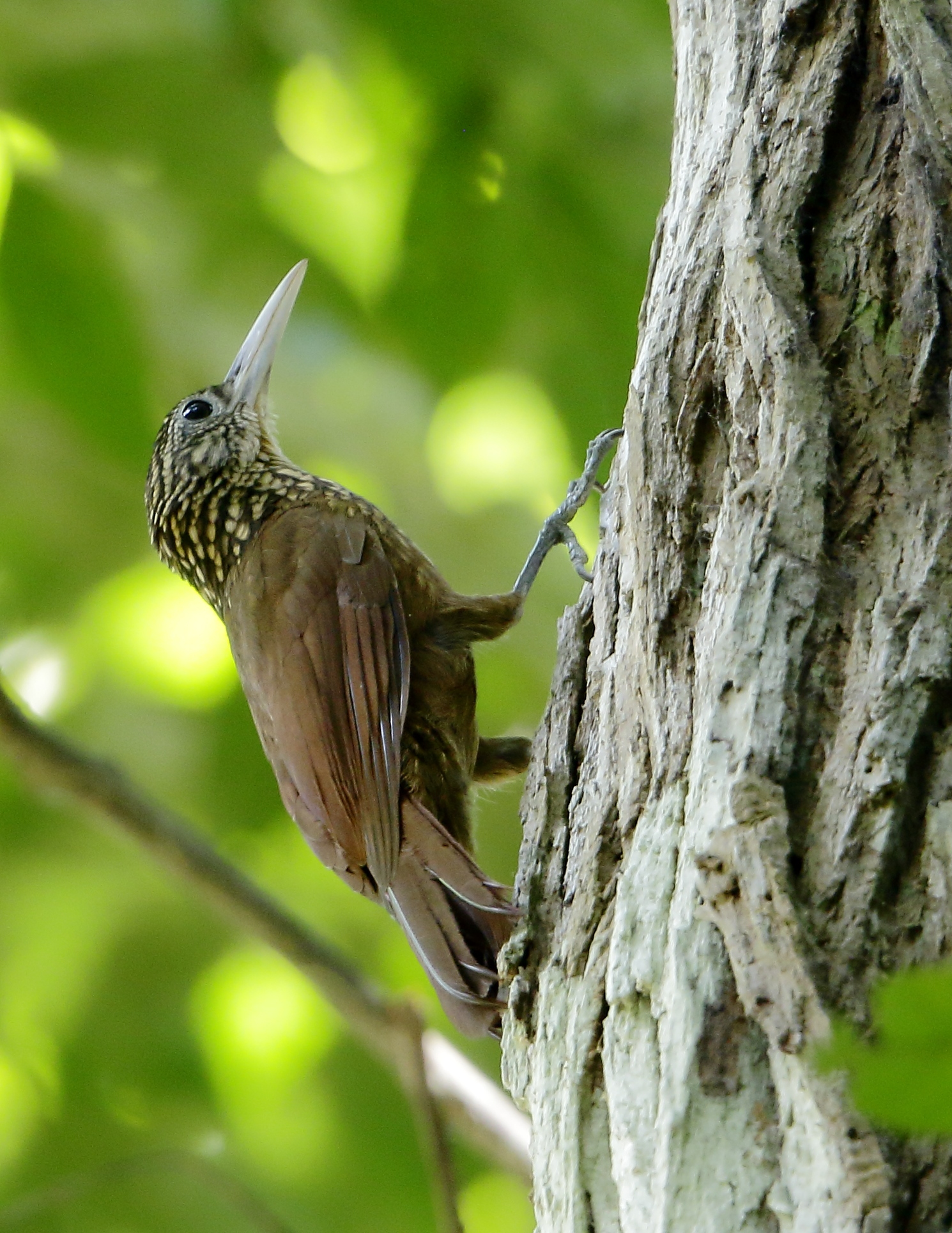 Lafresnaye's Woodcreeper; Xapuri, Acre, Brazil